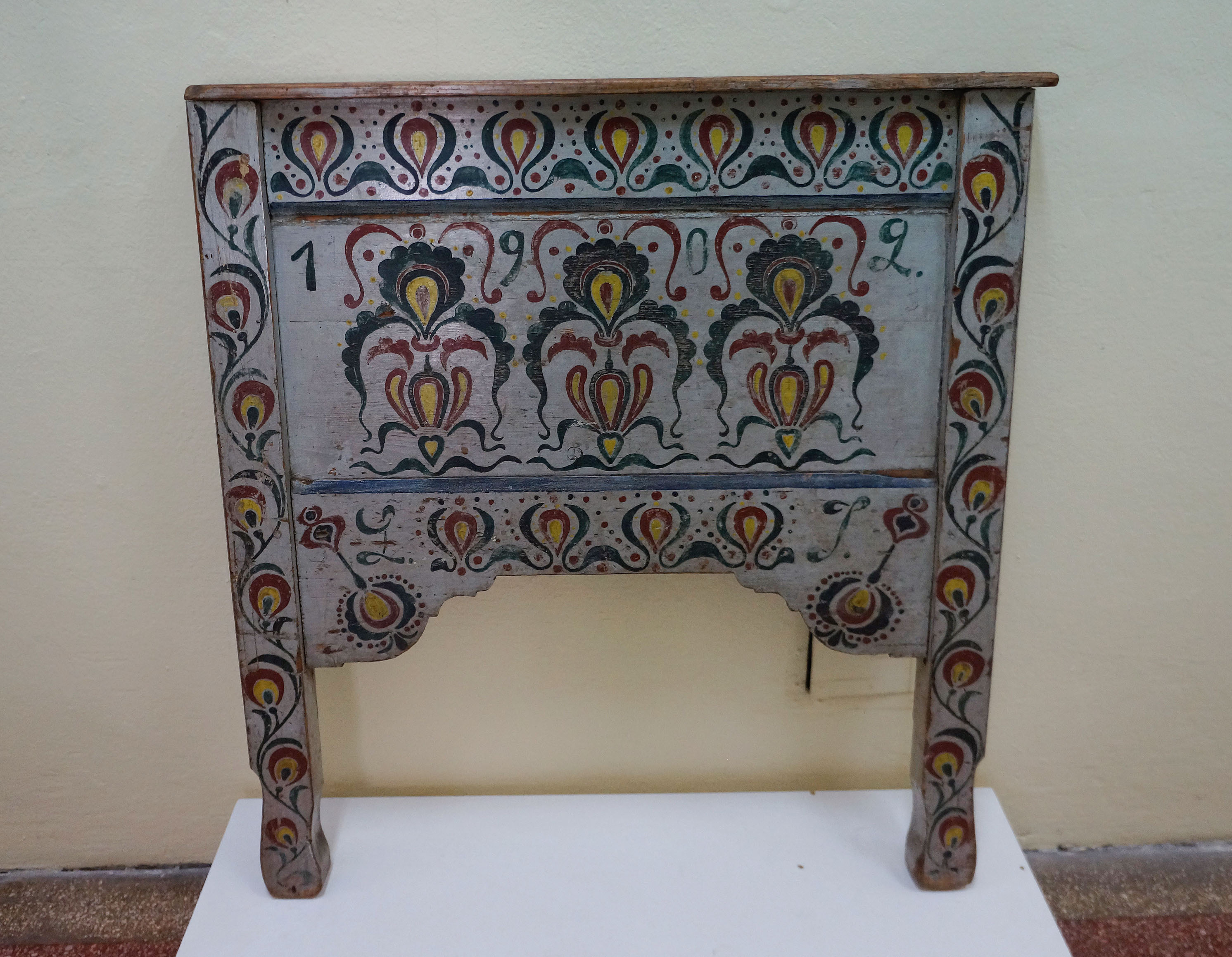 Senta/Zenta museum exhibit: ethnographic motive on a rescued furniture part – headrest of a bed